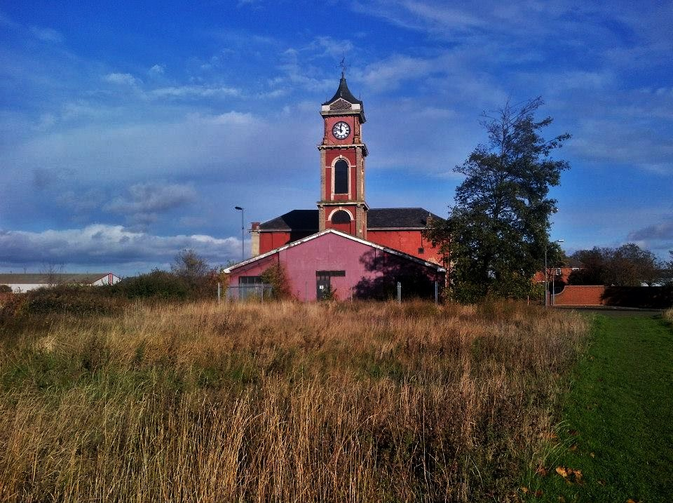 The old Middlesbrough Town Hall which is over the border.